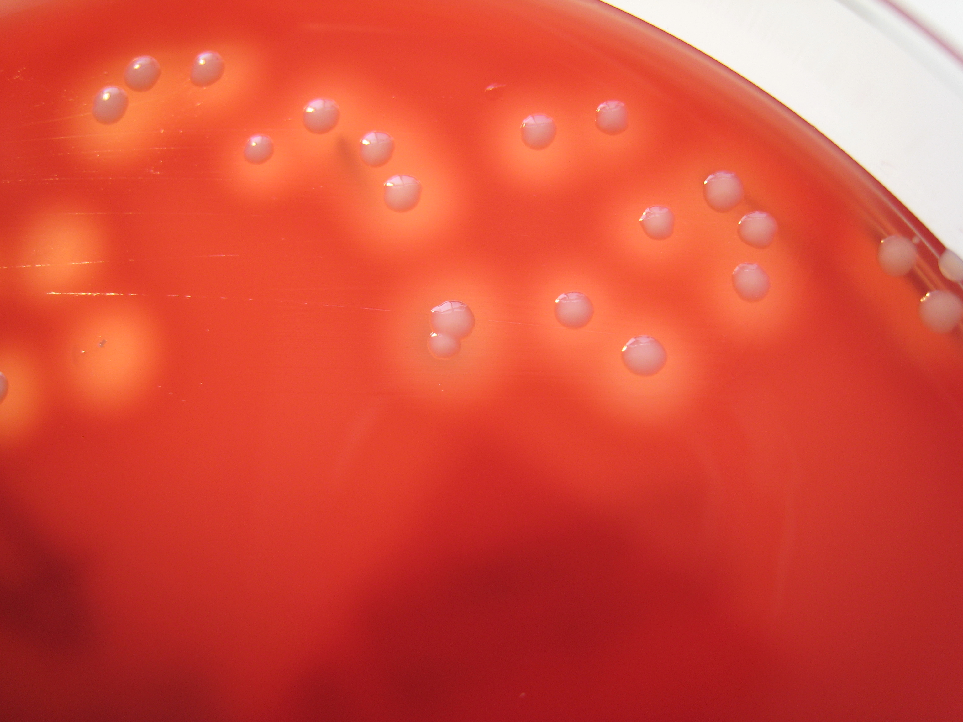 Staphylococcus aureus growing on Columbia horse blood agar